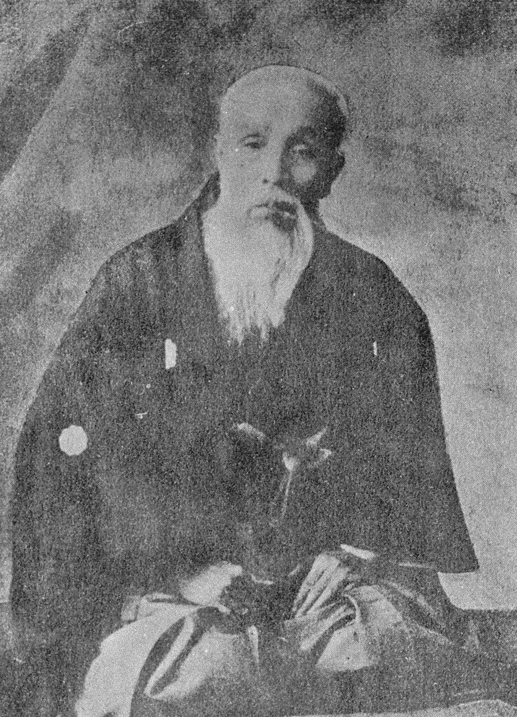 Portrait of Ito Heizaemon IX (九代目伊藤平左衛門, 1829 – 1913)